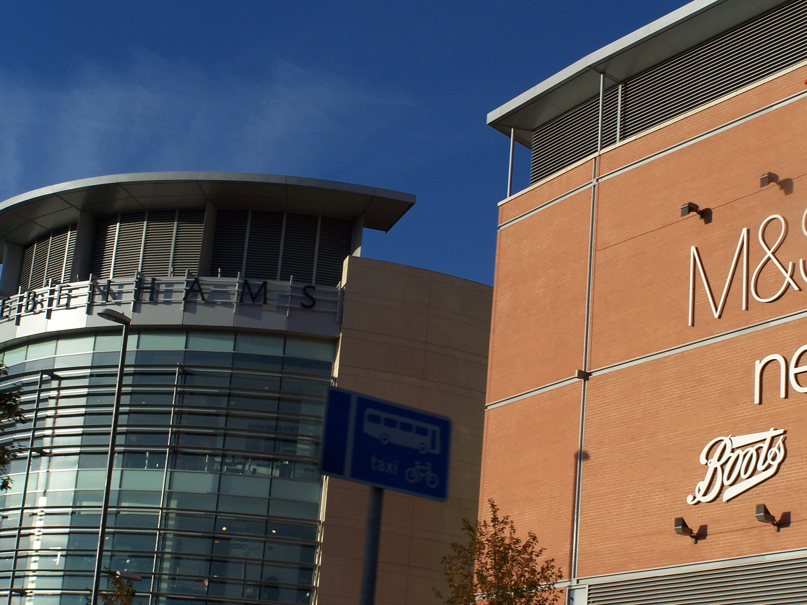 West field shopping temple.